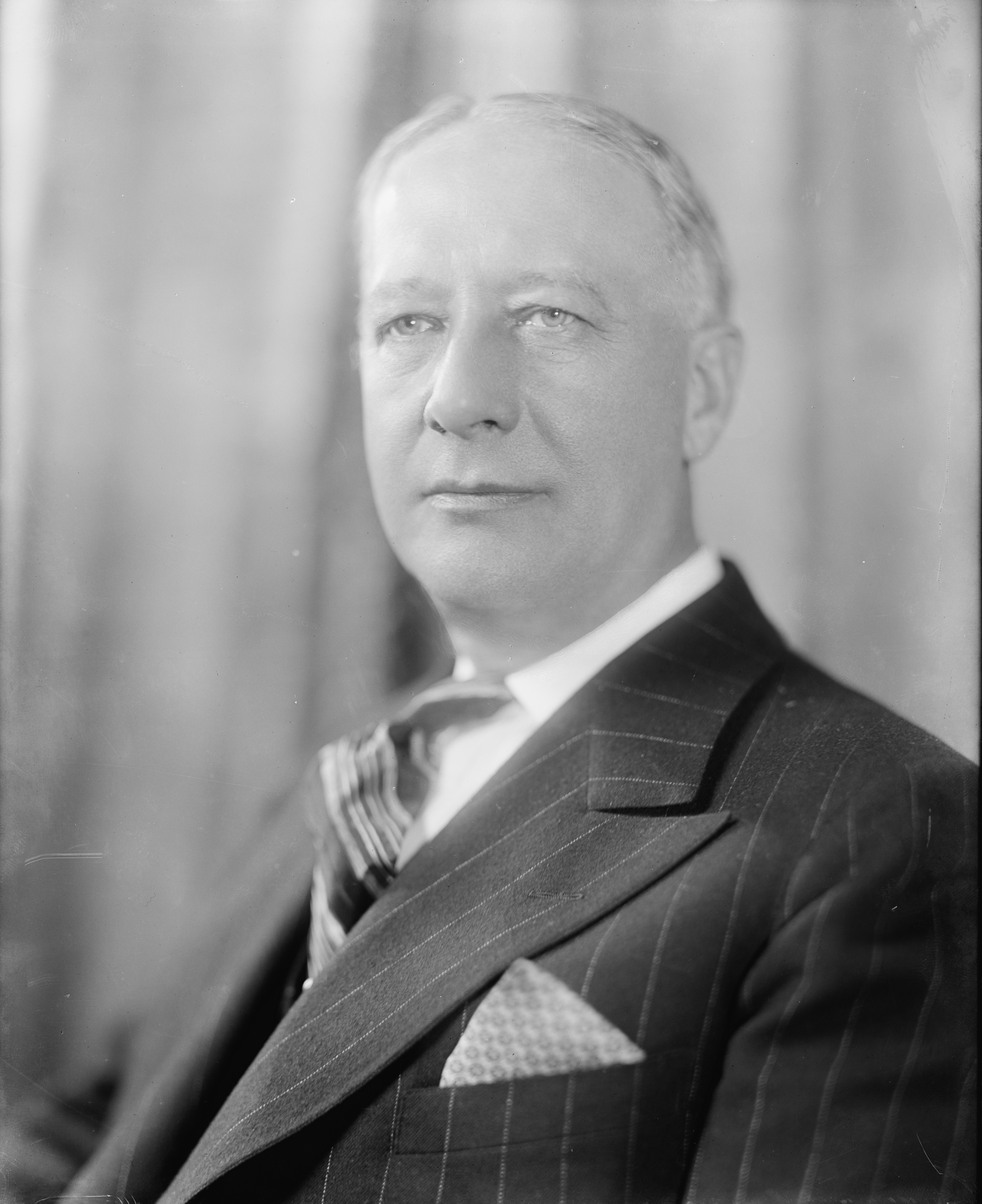 Photograph of Al Smith.